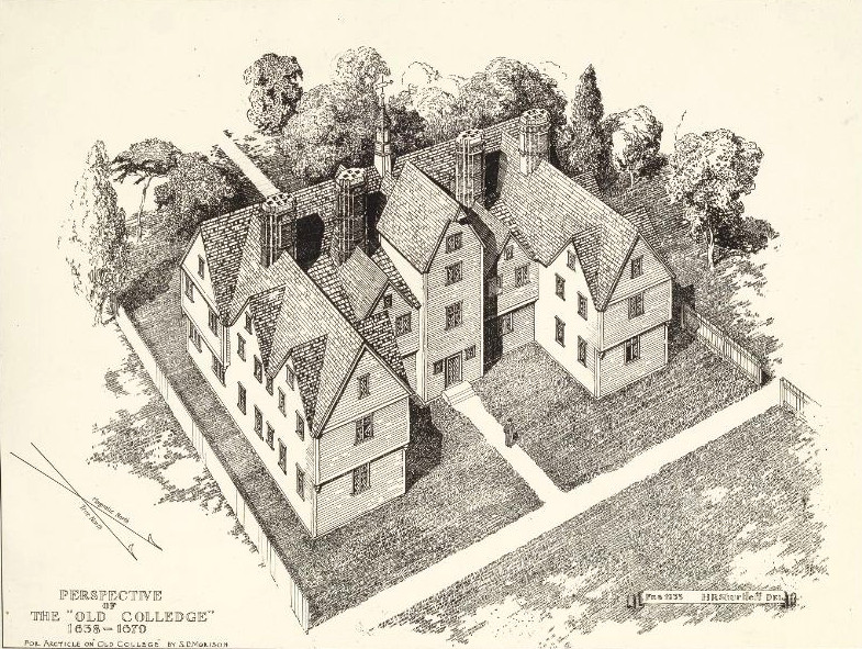 Photographic prints of the elevations and floor plans of Harvard College or "Old College" (1638-1670). Contains a photographic prints of Harvard College used in an article on "Old College" by Samuel E. Morison.